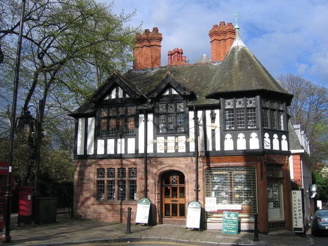 Saint Oswald's Chambers Saint Oswald's Chambers are dated 1898 and are located on a corner of Saint Werburgh Street where it meets Bell Tower Walk. The name and date are carved into the sandstone above the doorway.